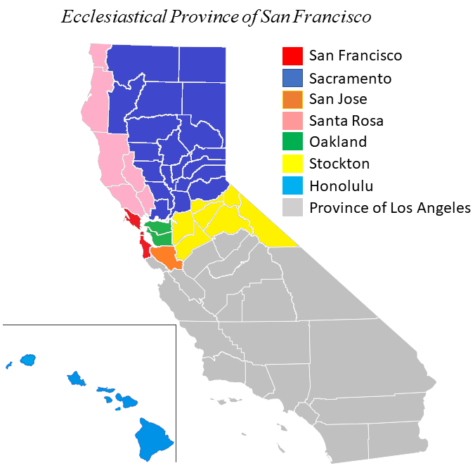 The Ecclesiastical Province of San Francisco encompasses the Catholic dioceses of Northern California, and the states of Hawaii, Nevada and Utah, USA.